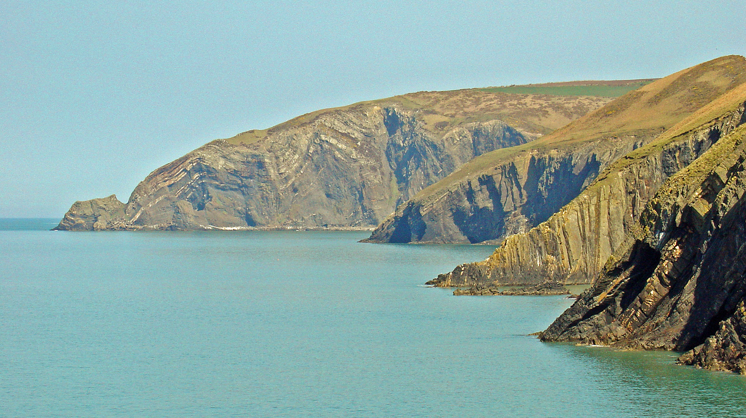 Cliffs of Penyrafr, viewd from Ceibwr Bay, North Pembrokeshire, Wales